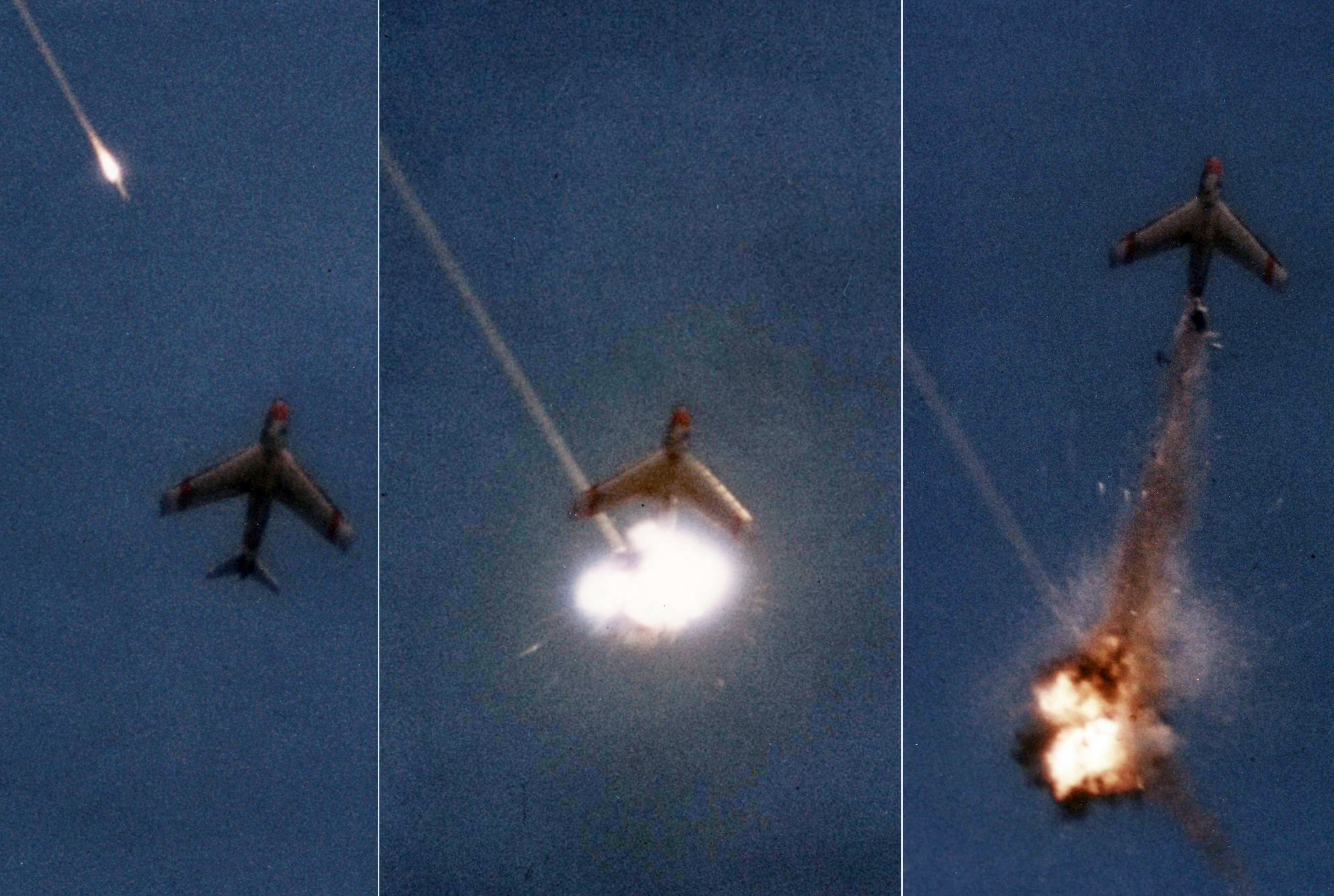 An AIM-9L Sidewinder air-to-air missile intercepts a North American QF-86F Sabre target drone over the U.S. Navy Naval Weapons Center (NWC) China Lake, California (USA), 26 January 1978.